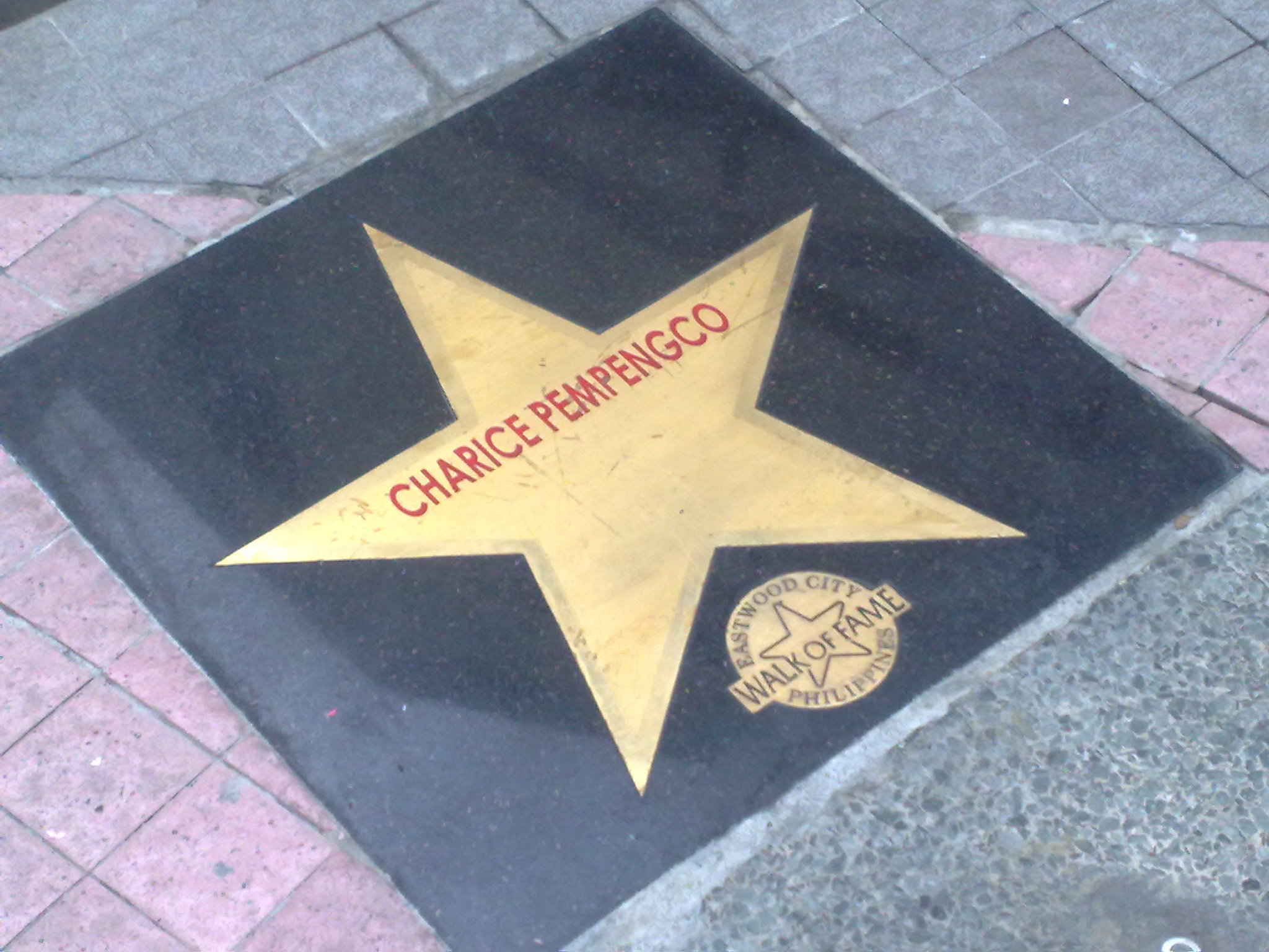 Charice Pempengco's Star in the Eastwood City Walk of Fame. This photo is taken by myself on December 3, 2010 using a Nokia 6220 Classic. Summary Charice Pempengco's Star in the Eastwood City Walk of Fame. This photo is taken by myself on December 3, 2010 using a Nokia 6220 Classic.